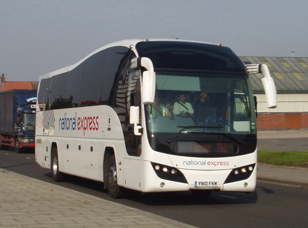 Plaxton Elite bodied Volvo B9R coach in National Express livery, YN10 FKM, operated by Selwyns of Runcorn, on the 09:30 Liverpool-London service 550 pictured on Edge Lane, Liverpool.